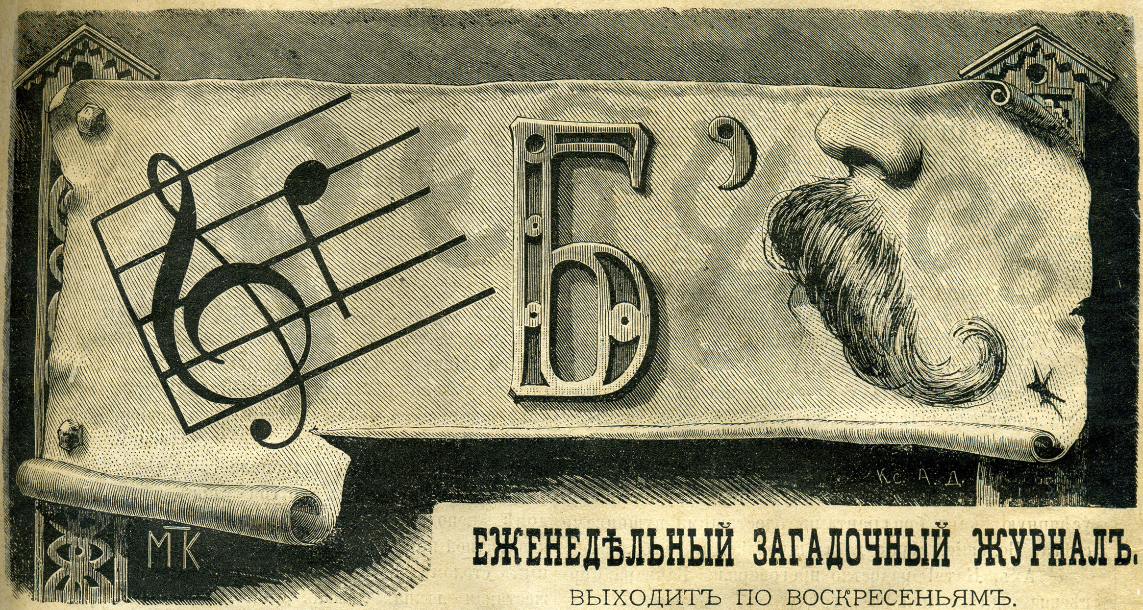 Rebus (Russian spiritual magazine 1881-1918) logo (rebus reads: re - B - usy (mustache))